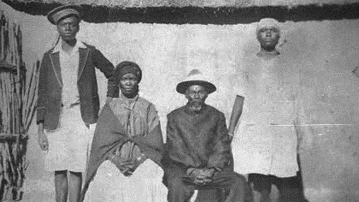 Moses Tladi Paintings